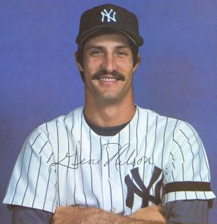 Professional baseball player Gene Nelson during the 1981 season as a member of the New York Yankees.